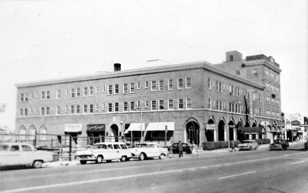 Floridan Hotel, Tallahassee, Florida, from a postcard